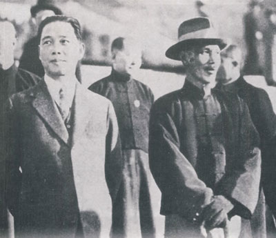 Wang Jingwei together with Chaing Kai-shek in 1926.